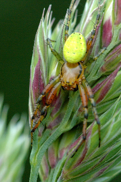 Araniella cucurbitina from Commanster, Belgian High Ardennes .